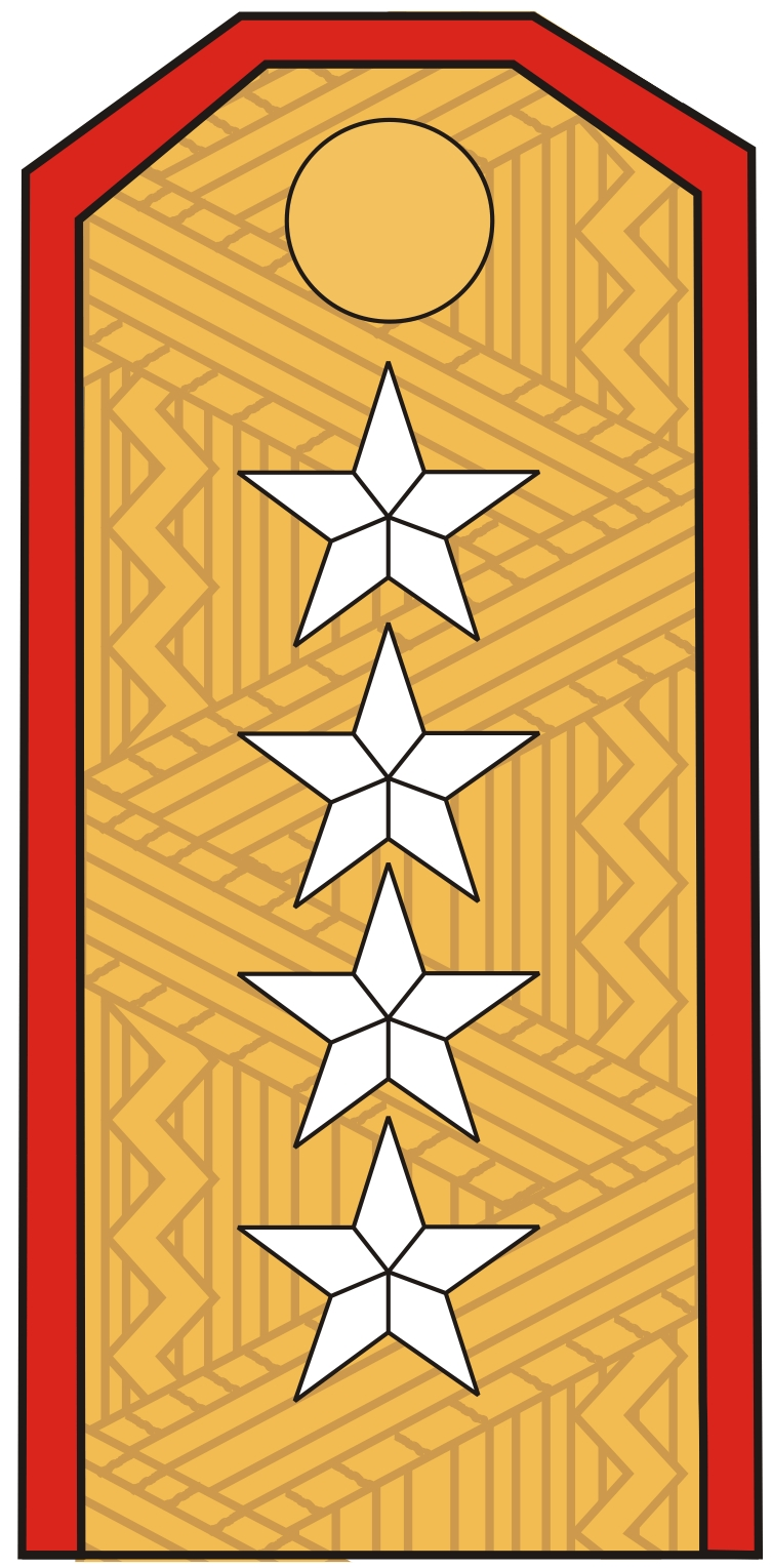 Russian rank insignia (1943-1945), here "General of the Army" (OF9) – shoulder strap Army (infantry, motorized infantry) field uniform, color khaki.